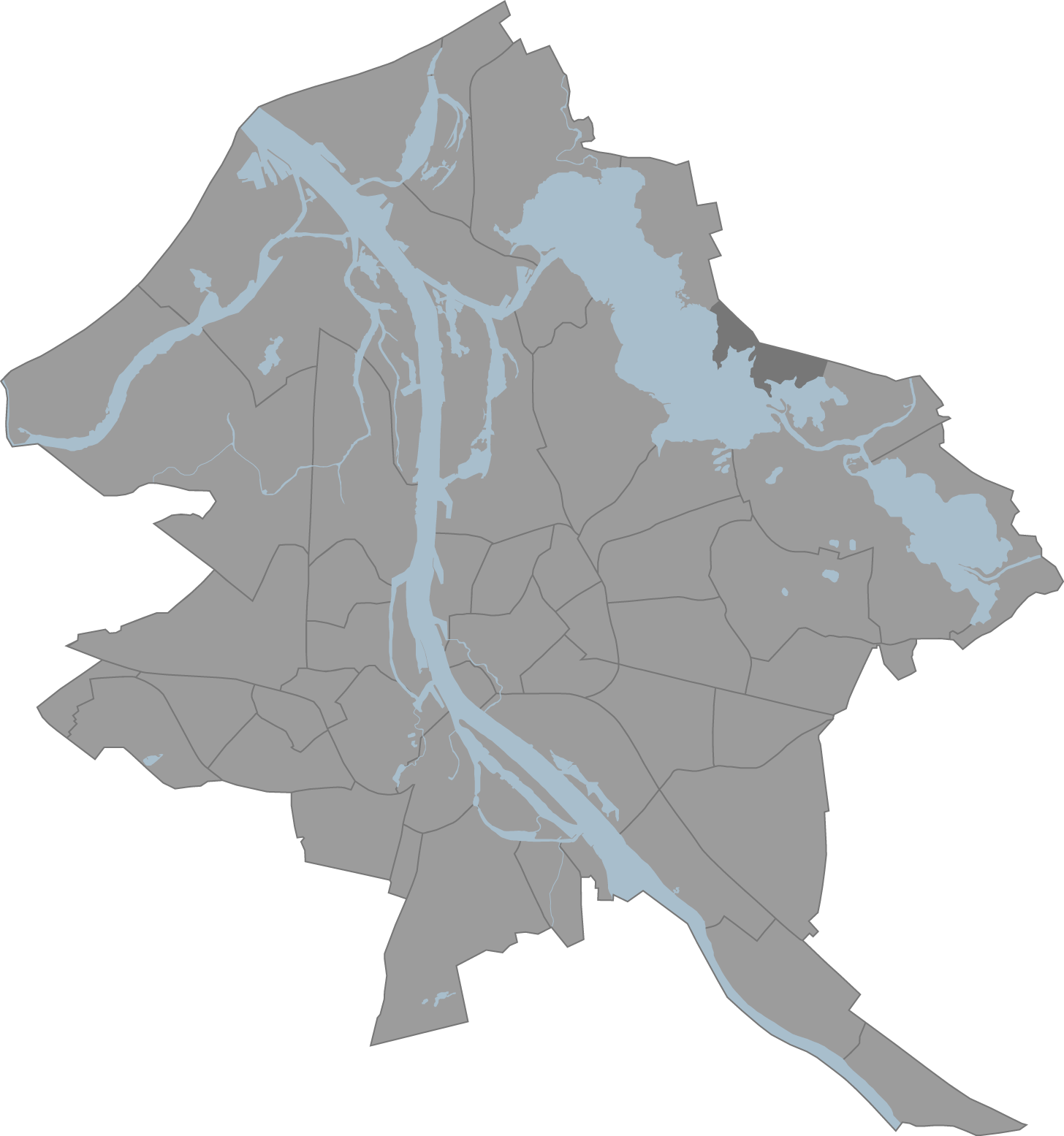 A map of Riga, Latvia with the eponymous commune highlighted